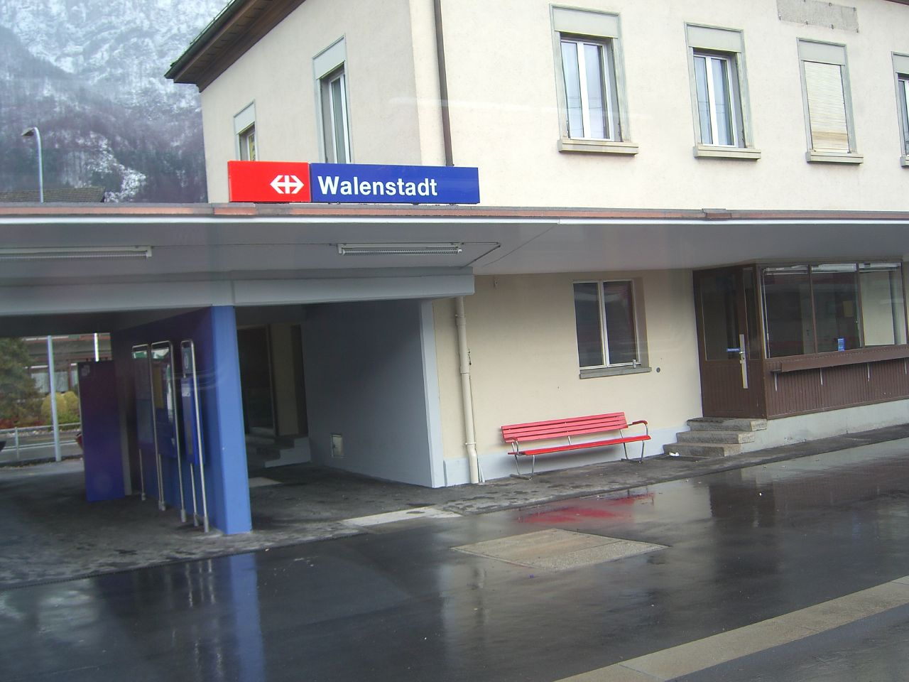 Railway station of Walenstadt, Switzerland